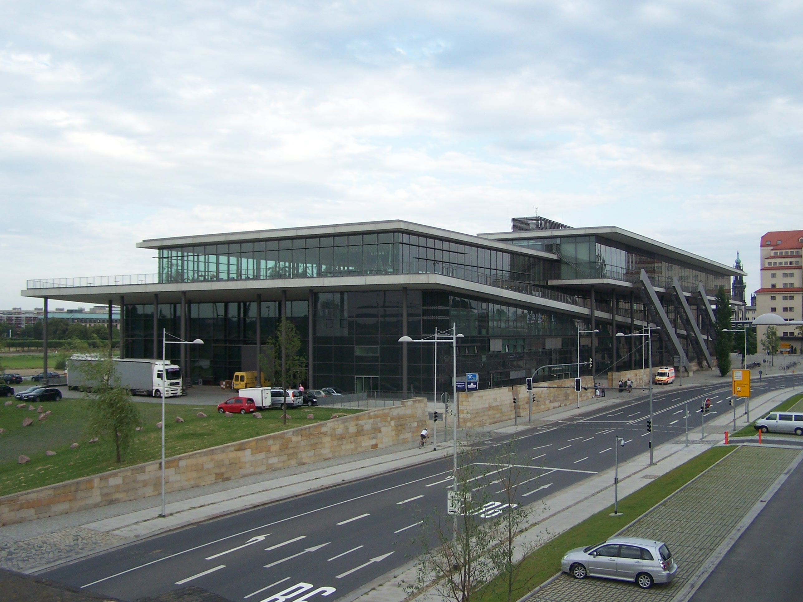 International Congress Center Dresden as seen from the bridge “Marienbrücke”